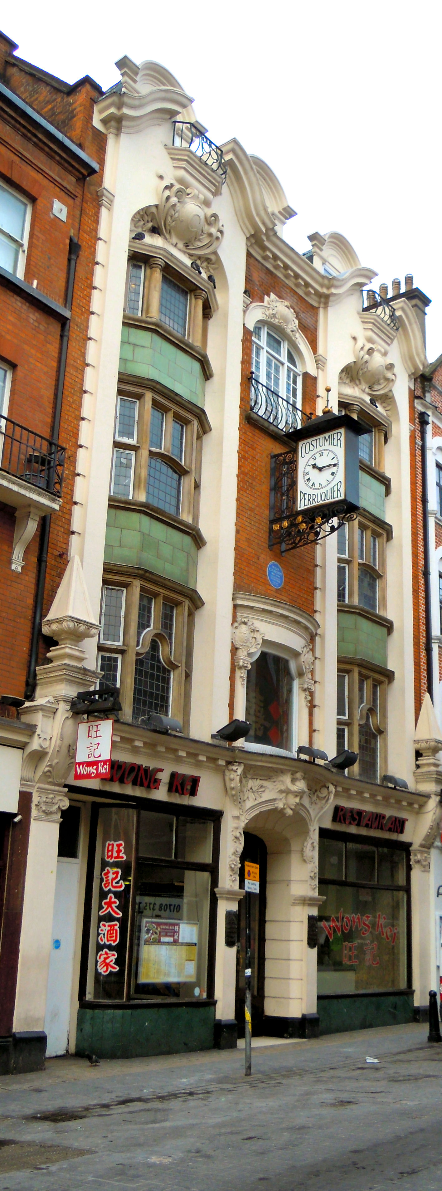 The former premises of wigmaker and costumier Willy Clarkson in Wardour Street in London